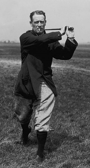 21st May 1914: British golfer Harold Horsfall Hilton (1869 - 1942) on the course at Sandwich in Kent.